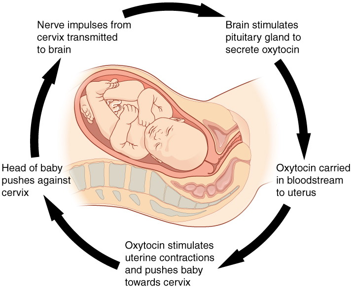 Caption: Normal childbirth is driven by a positive feedback loop. A positive feedback loop results in a change in the body’s status, rather than a return to homeostasis. Specific URL: Related images